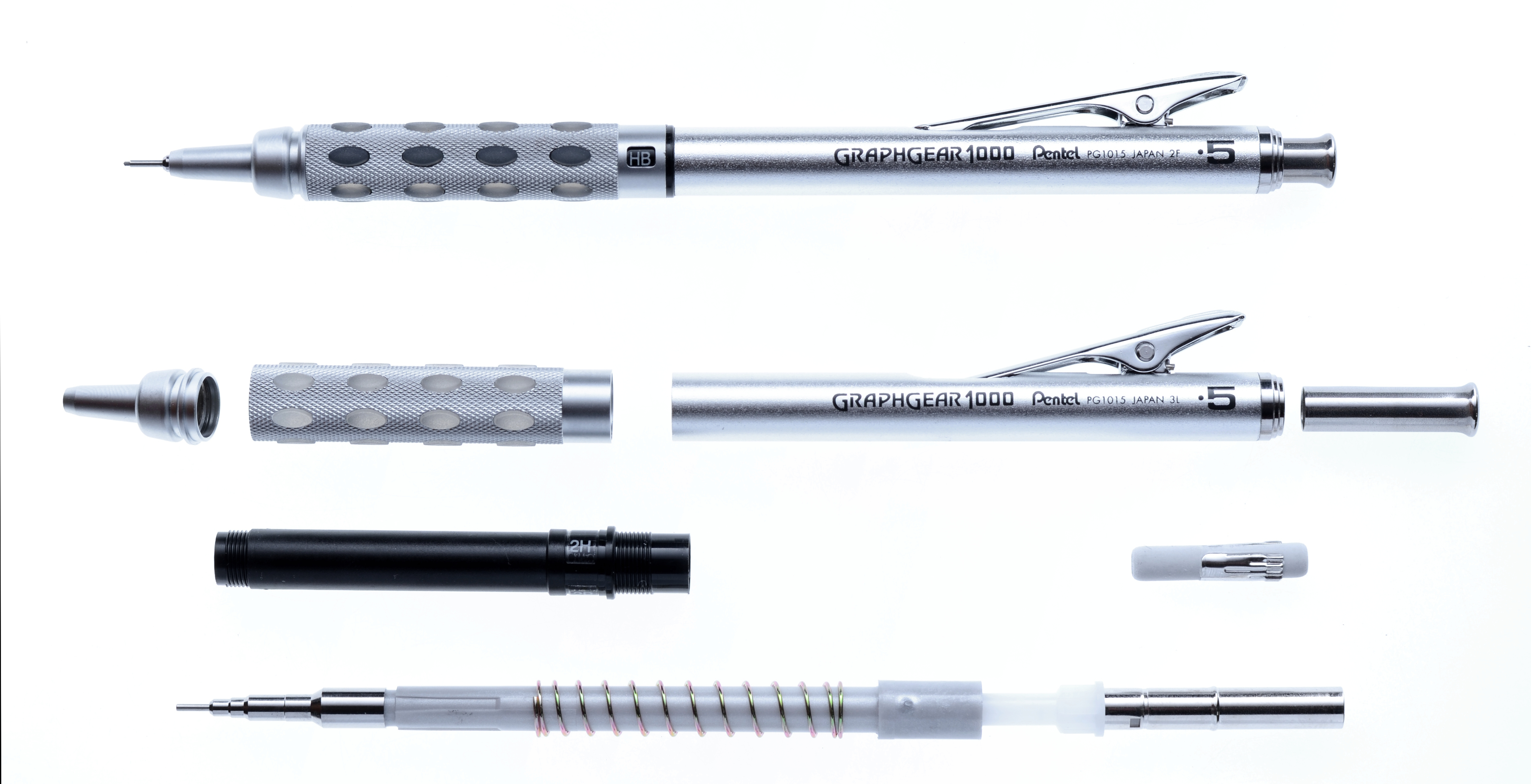 Mechanical GraphGear 1000 (PG1015) pencil by Pentel featuring a clip-operated retractable lead guide pipe and lead hardness grade indicator set at HB assembled (top) and disassembled (bottom). GraphGear 1000 mechanical pencils are available in 0.3 mm, 0.4 mm, 0.5 mm, 0.7 mm and 0.9 mm lead diameters.